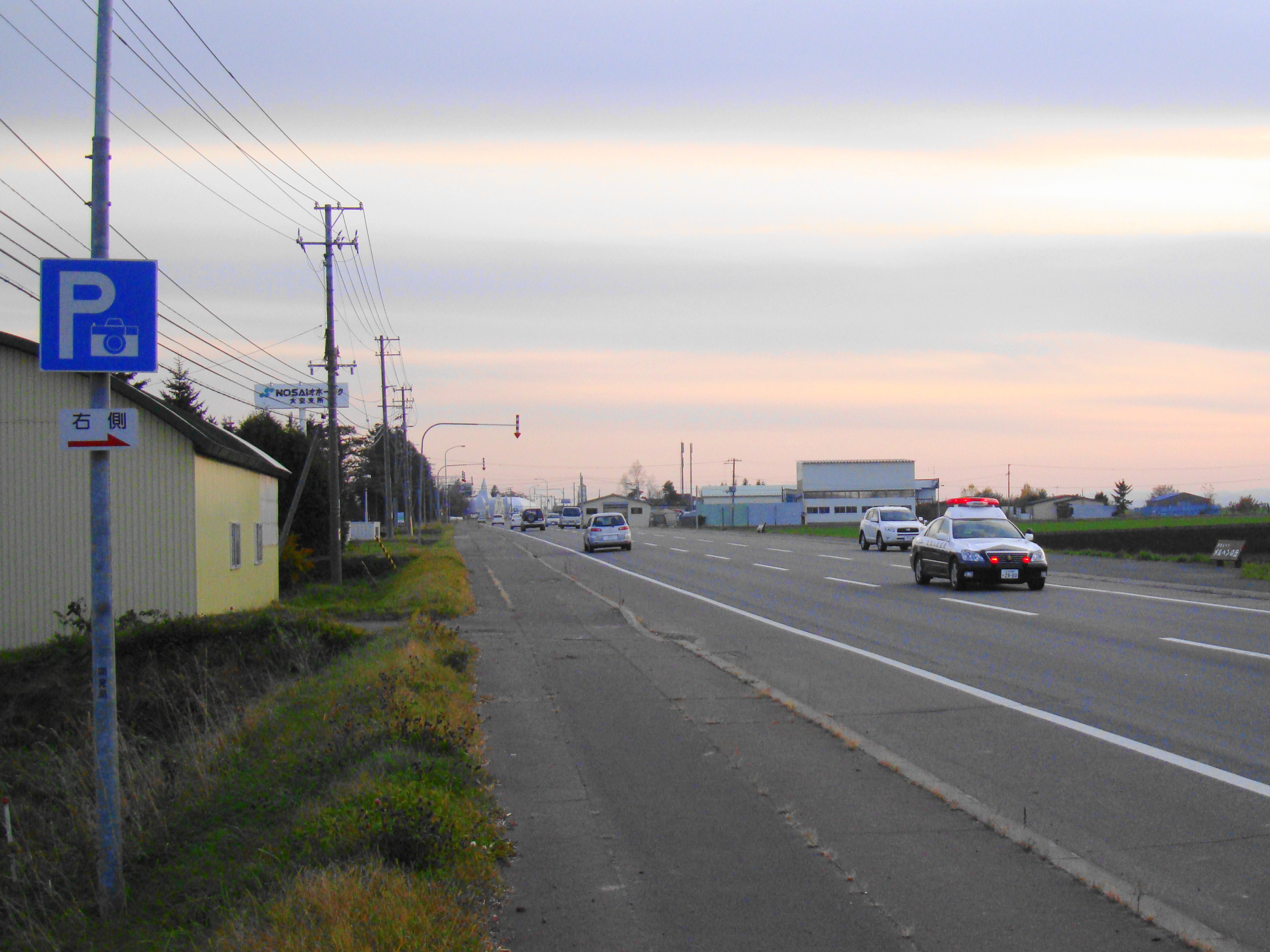 Car park at Märchen no oka in Memanbetsu, Ozora Town, Hokkaido, Japan